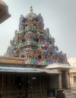 Tiruvarur asalesvarar temple திருவாரூர் அசலேஸ்வரர் கோயில்